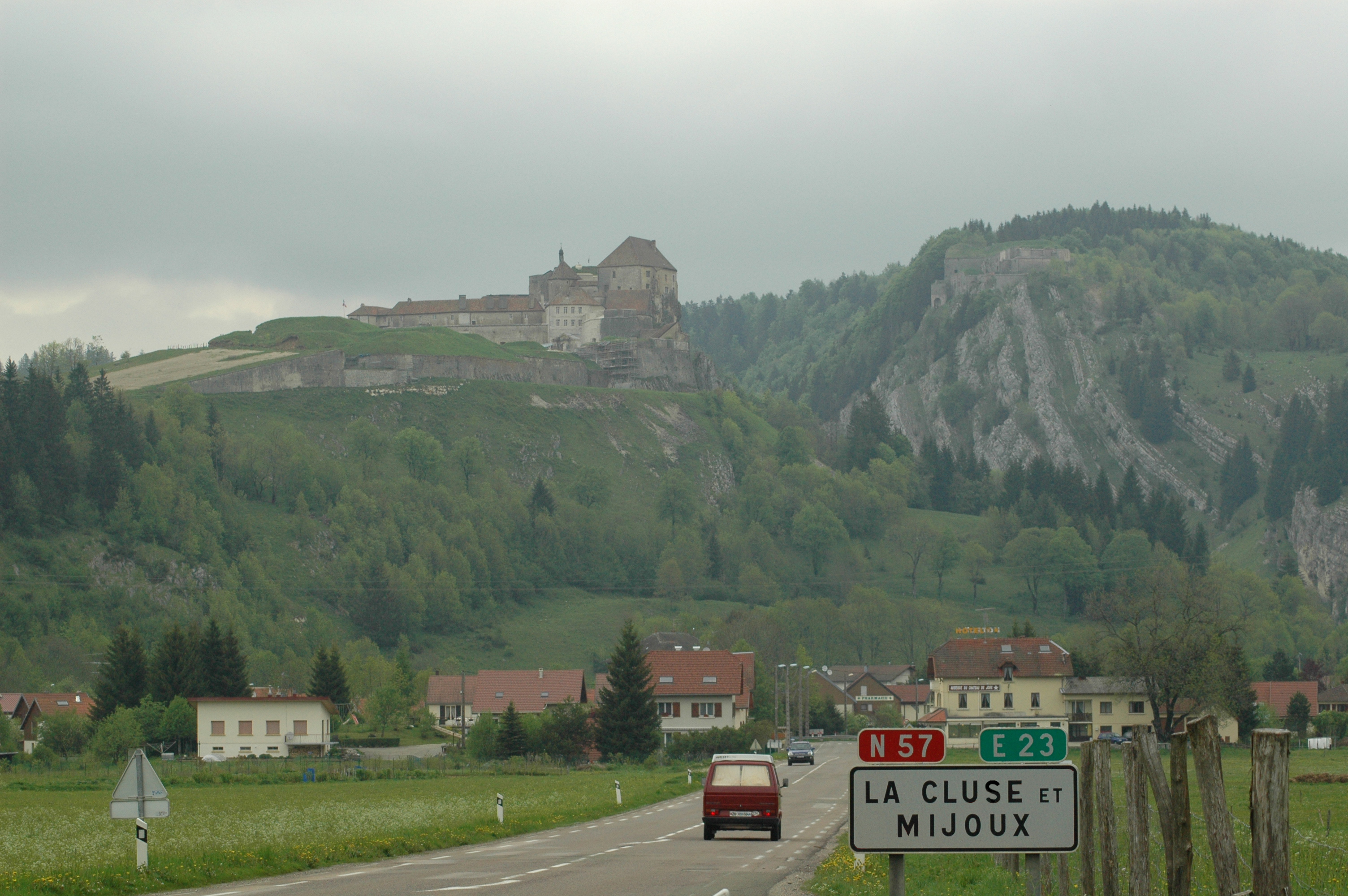 La Cluse-et-Mijoux (Doubs)